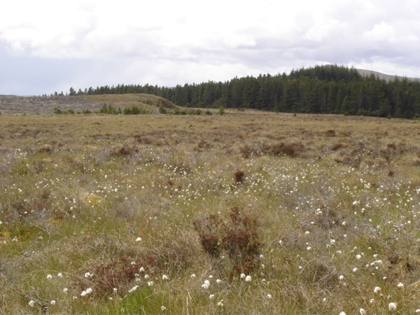 Bogland Meadow The top of the hills in this area are very boggy - peat is cut to the South - but after a few dry days you can walk across it along the deer trails.